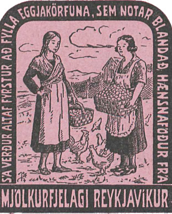 Advertisement from in Icelandic womens magazine for chicken fodder. Source Nýtt Kvennablað 1940